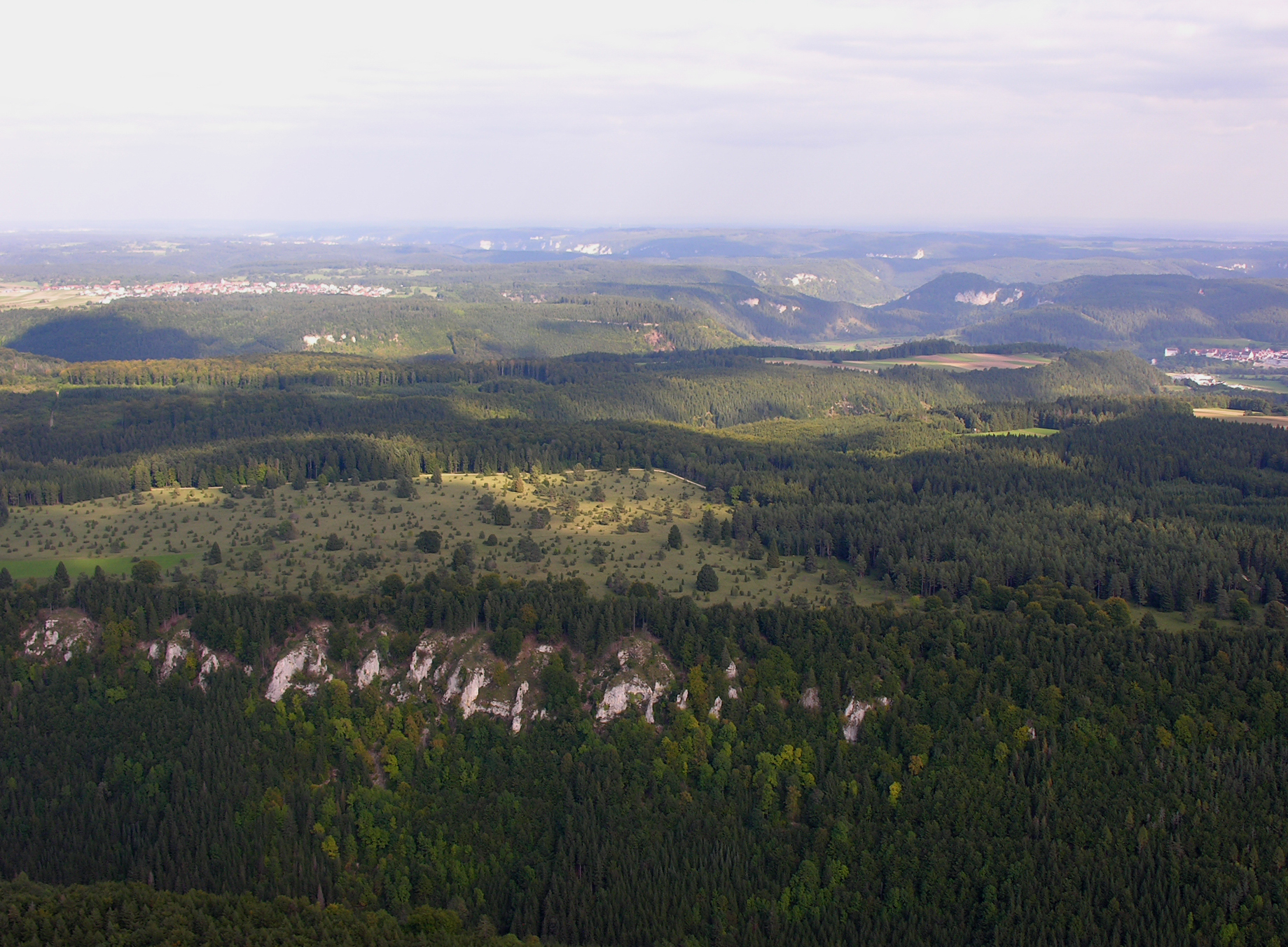 Germany, Baden-Württemberg, aerial view of the Danube valley from overhead Mahlstetten